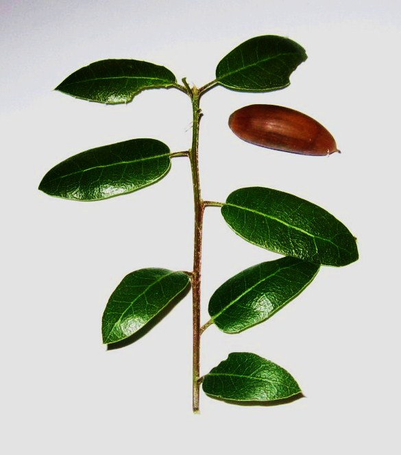 A spring twig of Interior Live Oak with an acorn. The leaves sometimes have spiny, rather than smooth, margins.